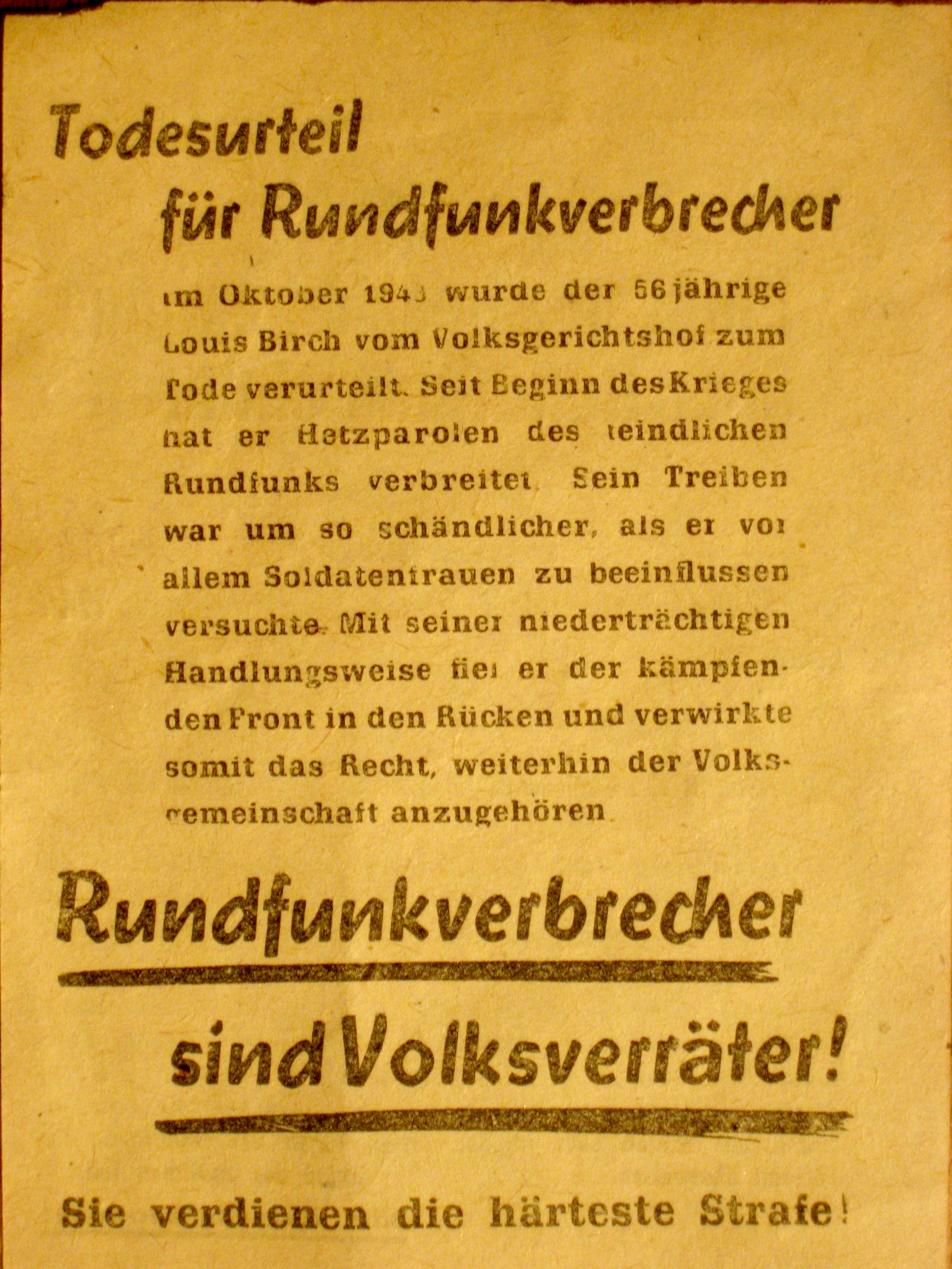 image of a receipt of dues for receiving radio signals from the Radiostations of the German Reich Page 2